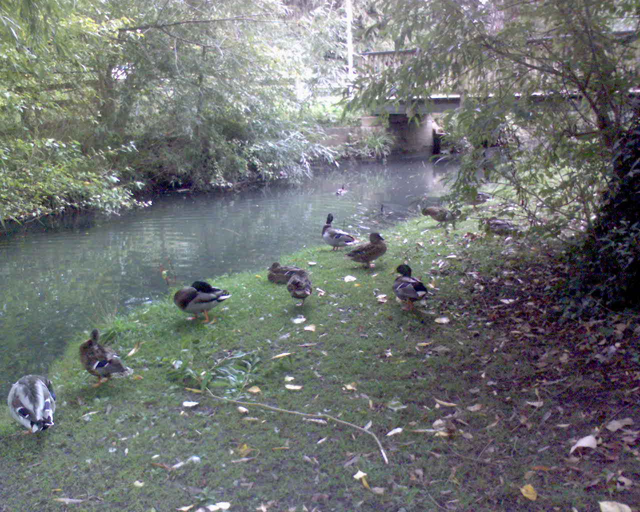 River that flows next to Barnwood Arboretum